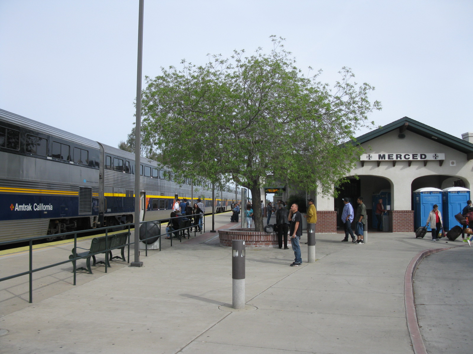 A San Joaquin train - probably southbound #716 - at Merced station in April 2015